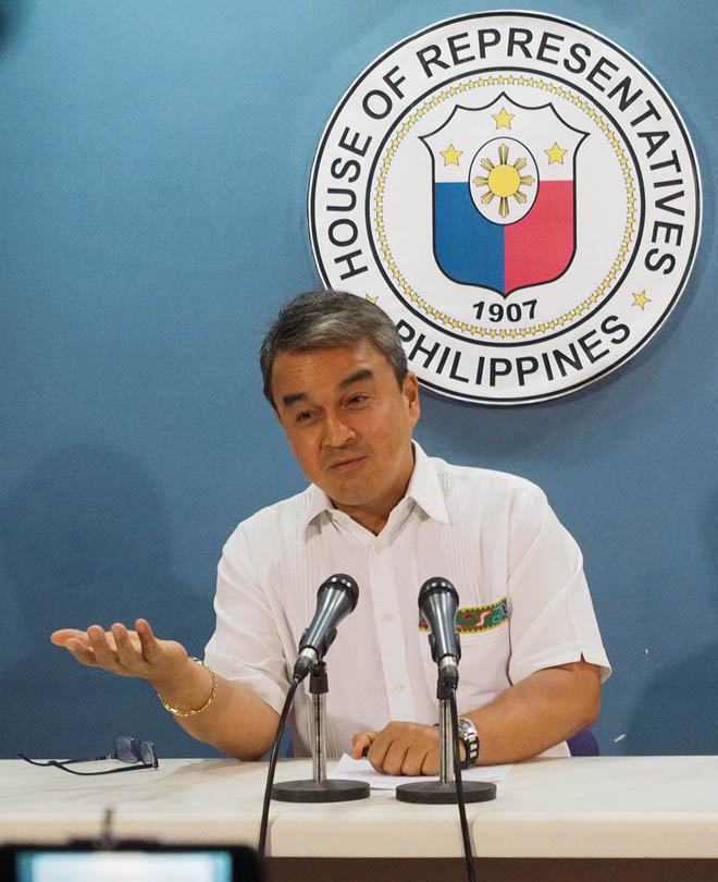 Representative Robert "Ace" Barbers at a press briefing at the Batasang Pambansa Complex. The original caption is as follows: “ASEAN VS DRUG MENACE. Rep. Robert Ace Barbers, chairman of the House Committee on Dangerous Drugs, lauds President Rodrigo Duterte’s strong political will in combating the illegal drug problem. Barbers held a press briefing on the eve of the 13th Meeting of the ASEAN Inter-Parliamentary Assembly (AIPA) Fact-Finding Committee (AIFOCOM) to Combat the Drug Menace. According to Barbers, the AIFOCOM meet will allow member-countries to exchange best practices and strengthen cooperation in addressing the drug menace.”